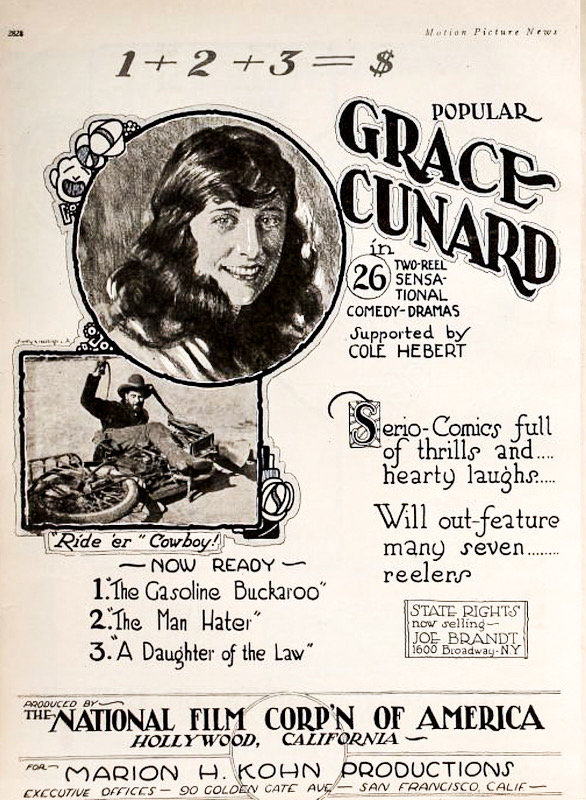 Screenshot of advertisement in Motion Picture News for three Western shorts that writer-director-actress Grace Cunard did for Marion H. Kohn Productions; includes a hand-drawn portrait of Cunard and listing of films, which were released in a series, 1920-1921.